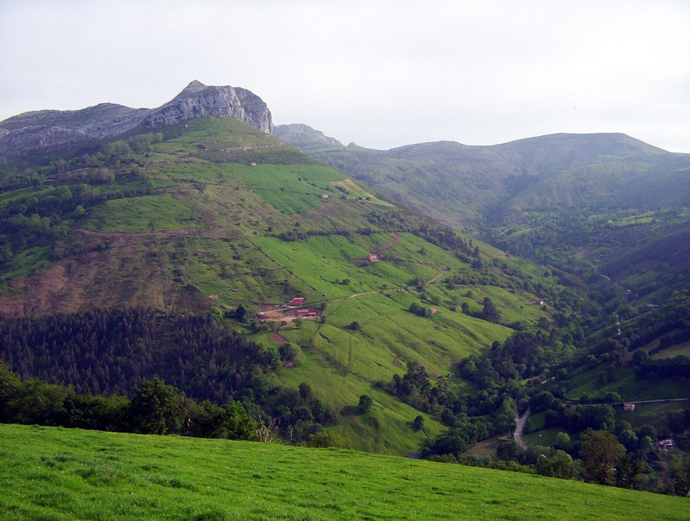 View of Peña Pelada, Cantabria (Spain)